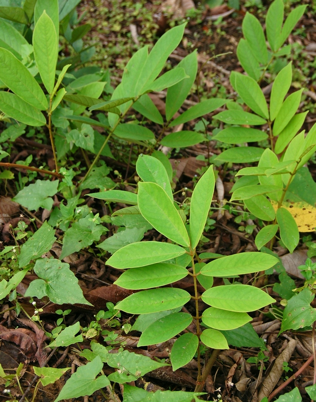 Derris elliptica leaves. From Simeulue, Indonesia.